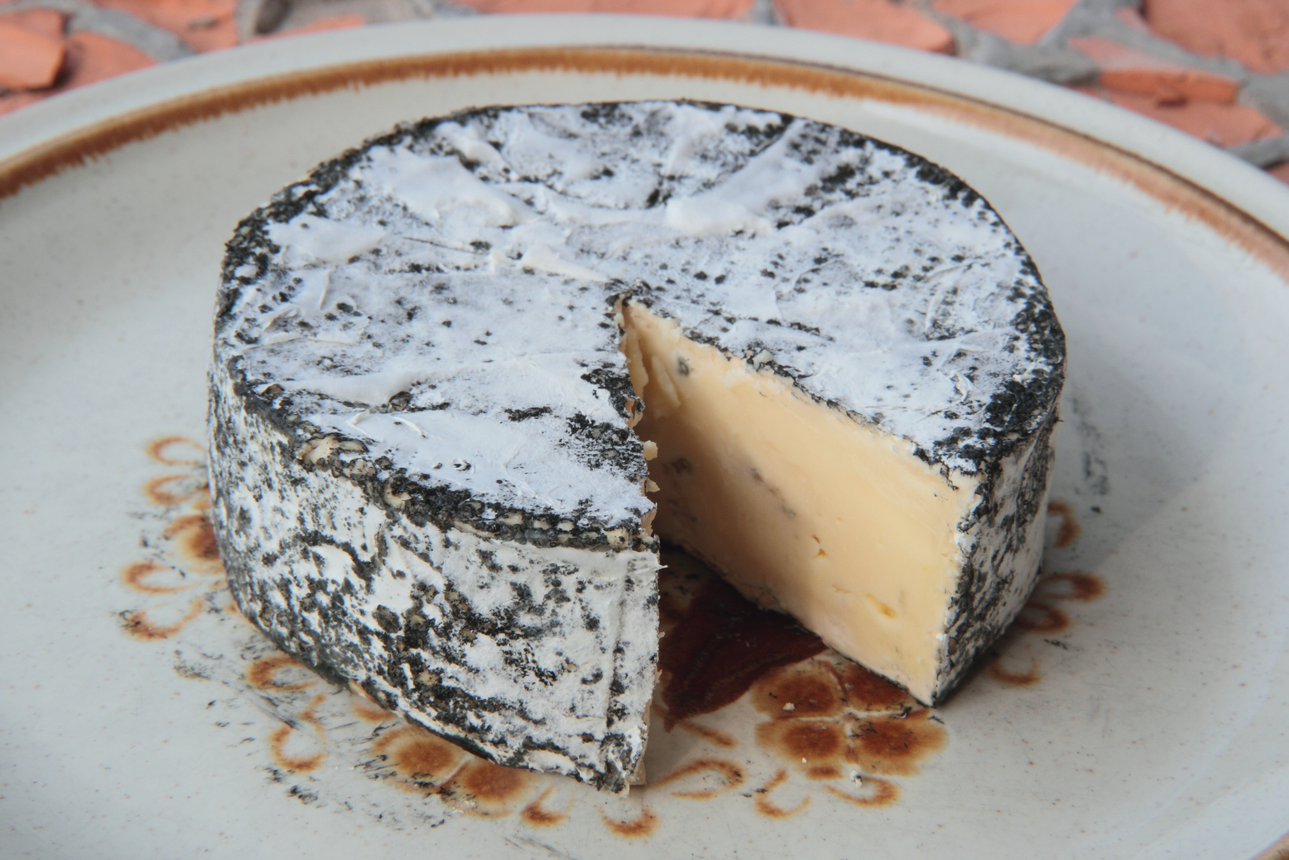 Météorite is a cheese made in Saint-Raymond, Quebec.